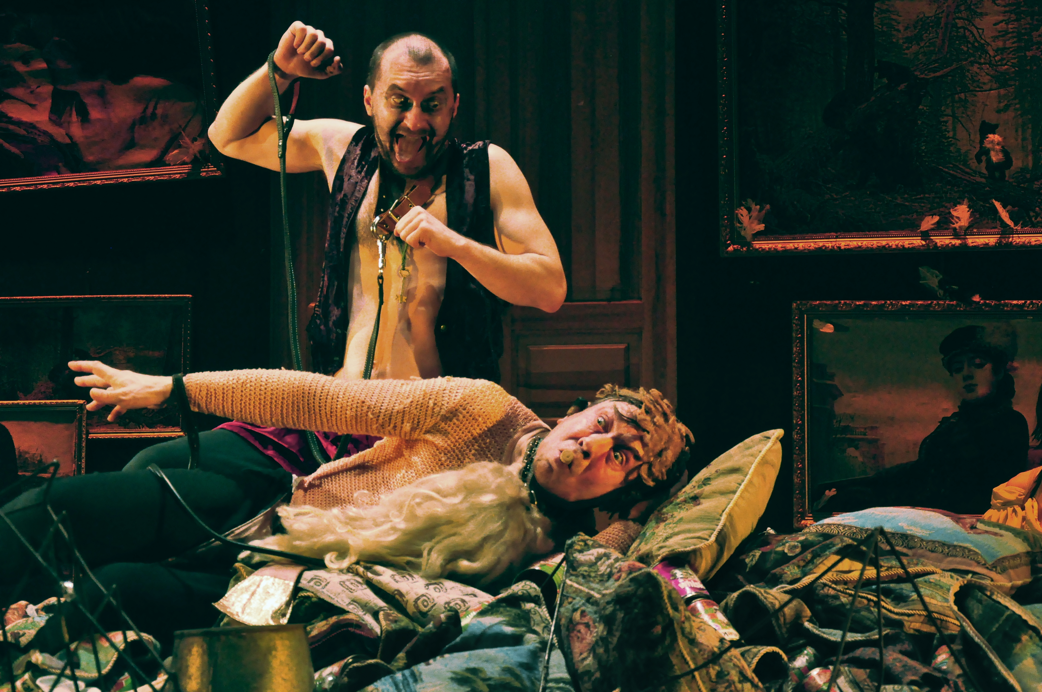 Taken at Moscow`s tour of Kolyada theatre in January 2014